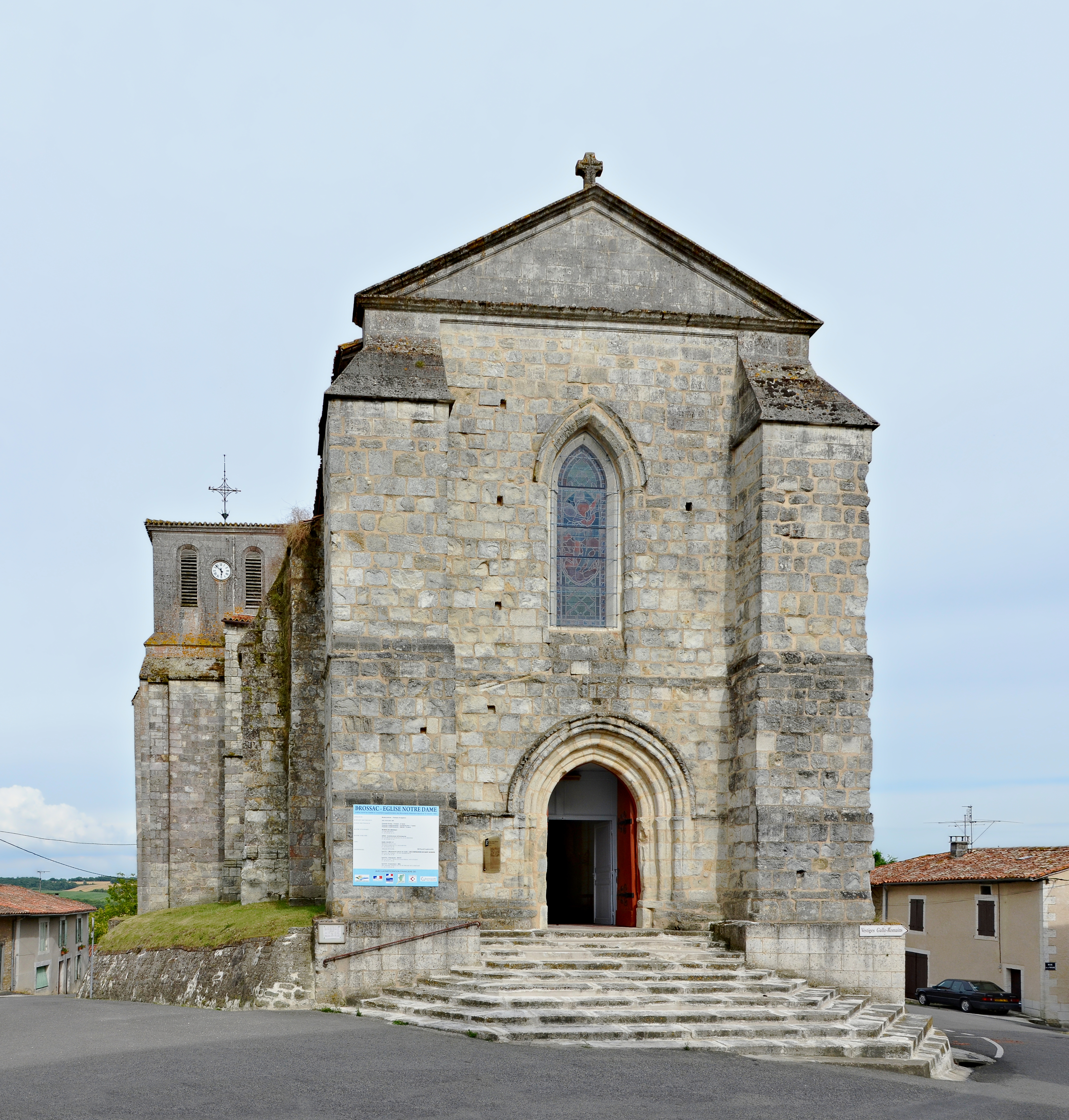 Church (12th-19th centuries) of Brossac, Charente,France. .